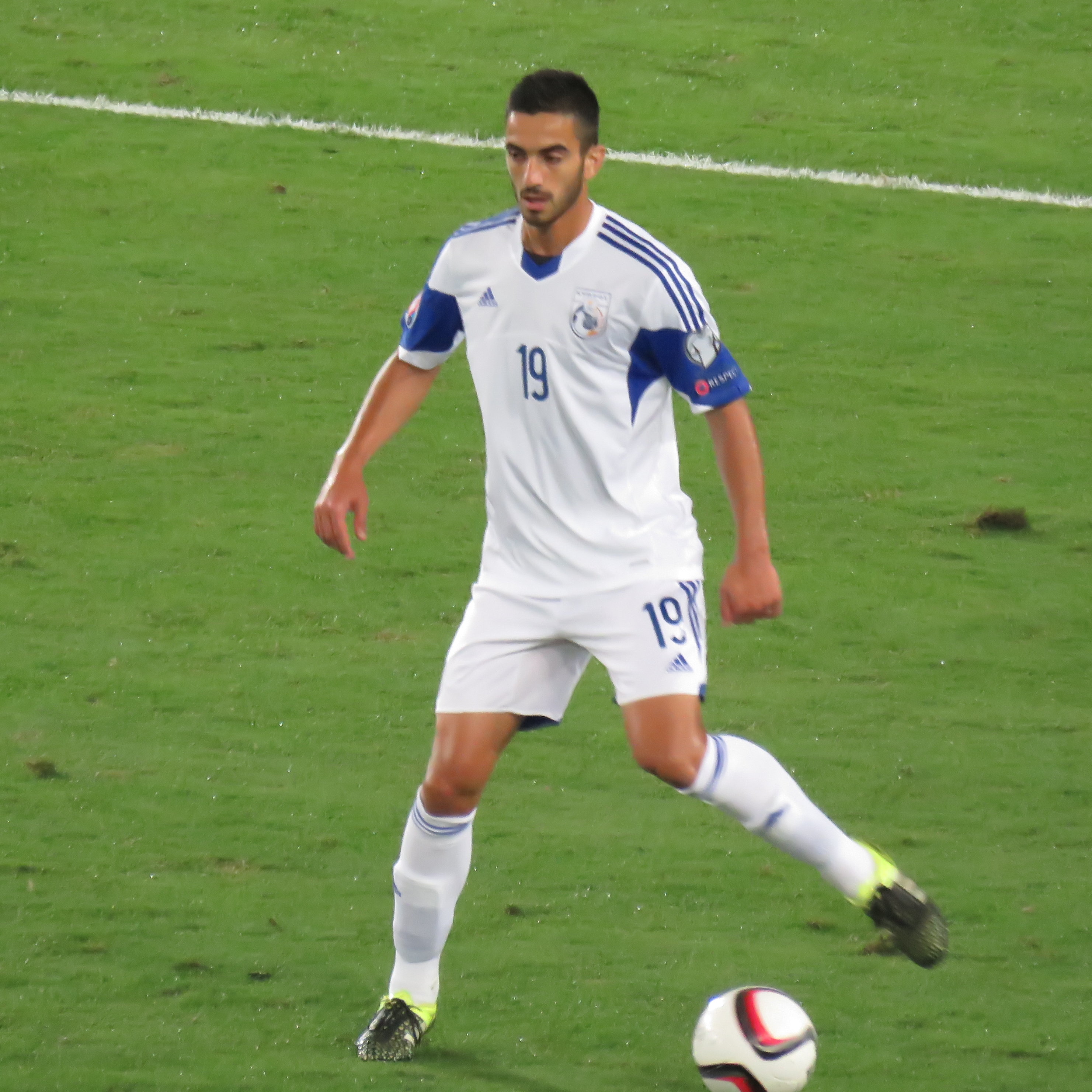 Israel vs. Cyprus - October 10, 2015